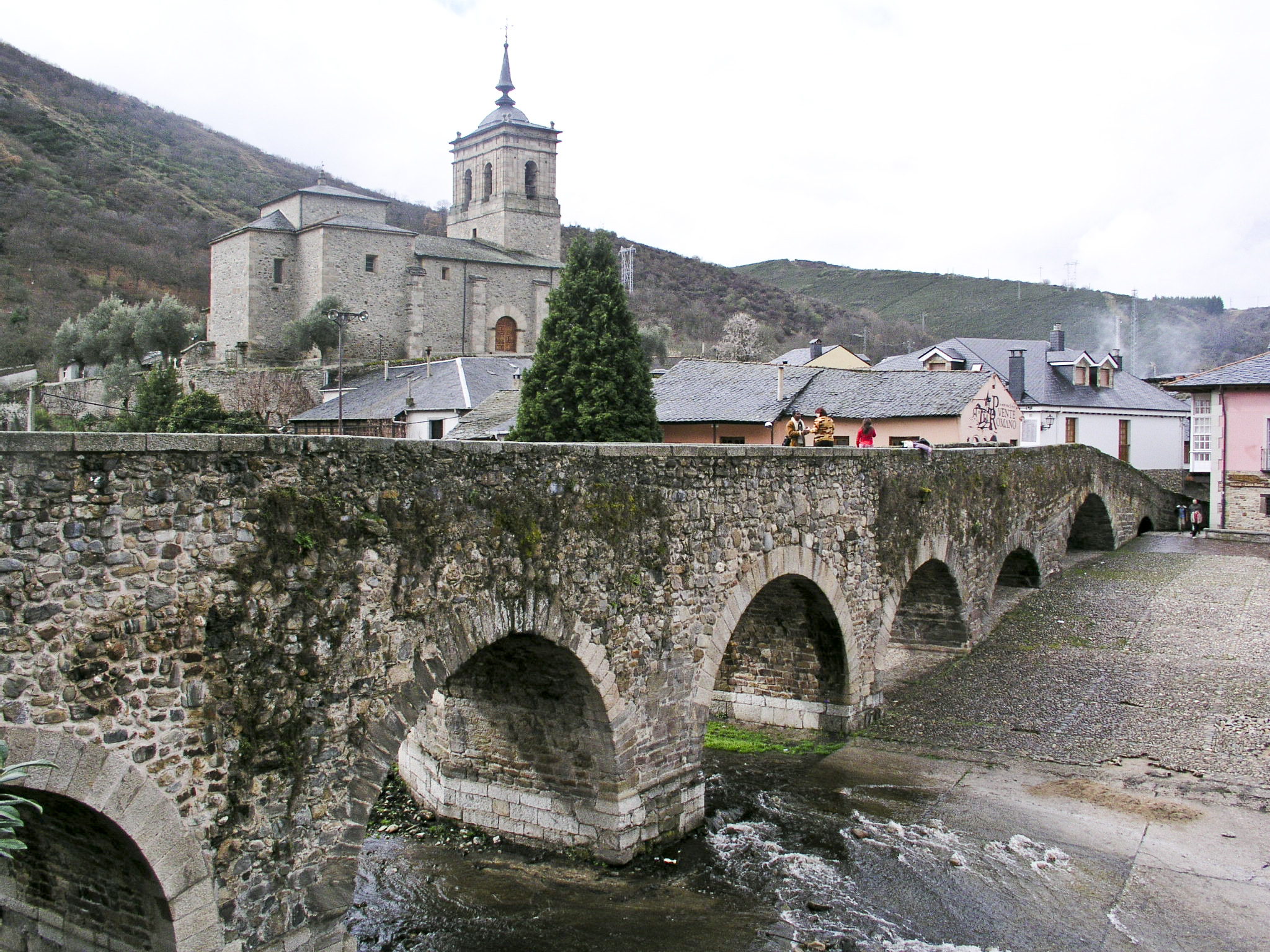 Roman bridge, Molinaseca, Province of León, Spain.